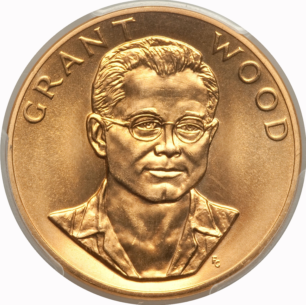 1980 Grant Wood One-Ounce Gold Medal (obv) (1211-4964)